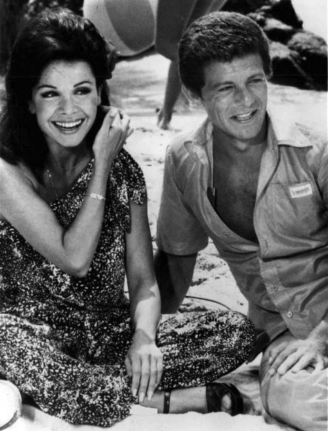 Publicity photo of American entertainers Frankie Avalon and Annette Funicello, promoting their appearance in the 1977 NBC television special entitled Good Old Days (aka: Good Ol' Days).